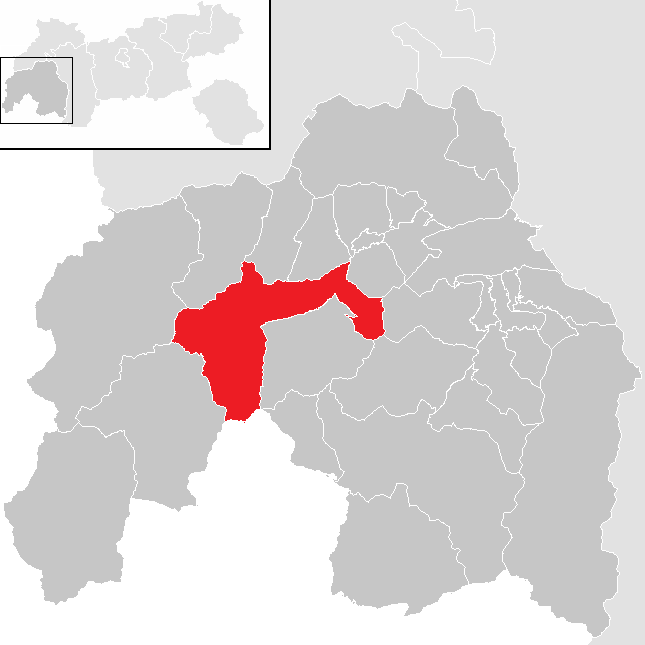 District Landeck